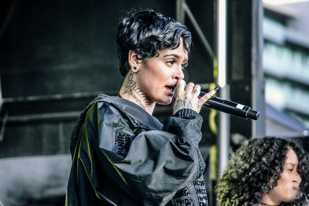 Kehlani performing at the Time Festival in Toronto, Ontario in August 2016.